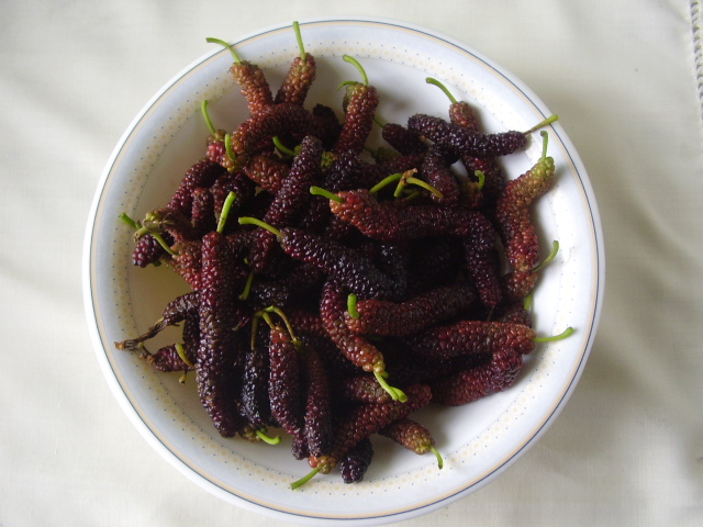 Long reddish black mulberry fruits